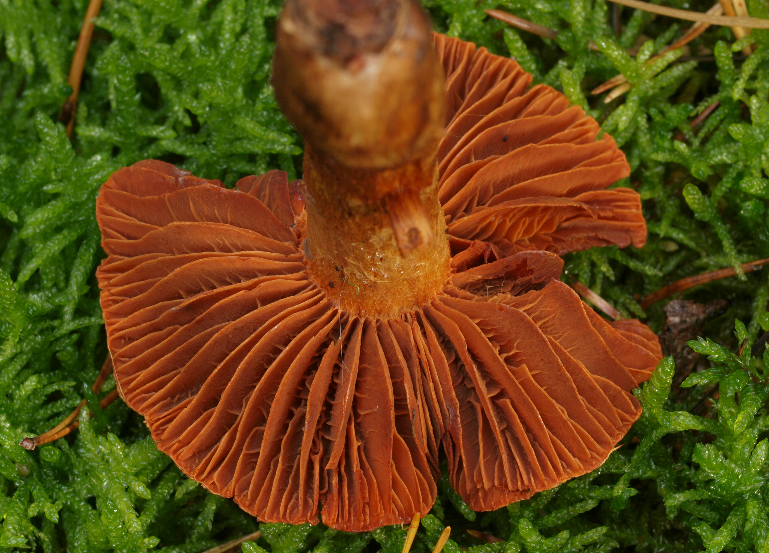 Fool's Webcap (Cortinarius orellanus)